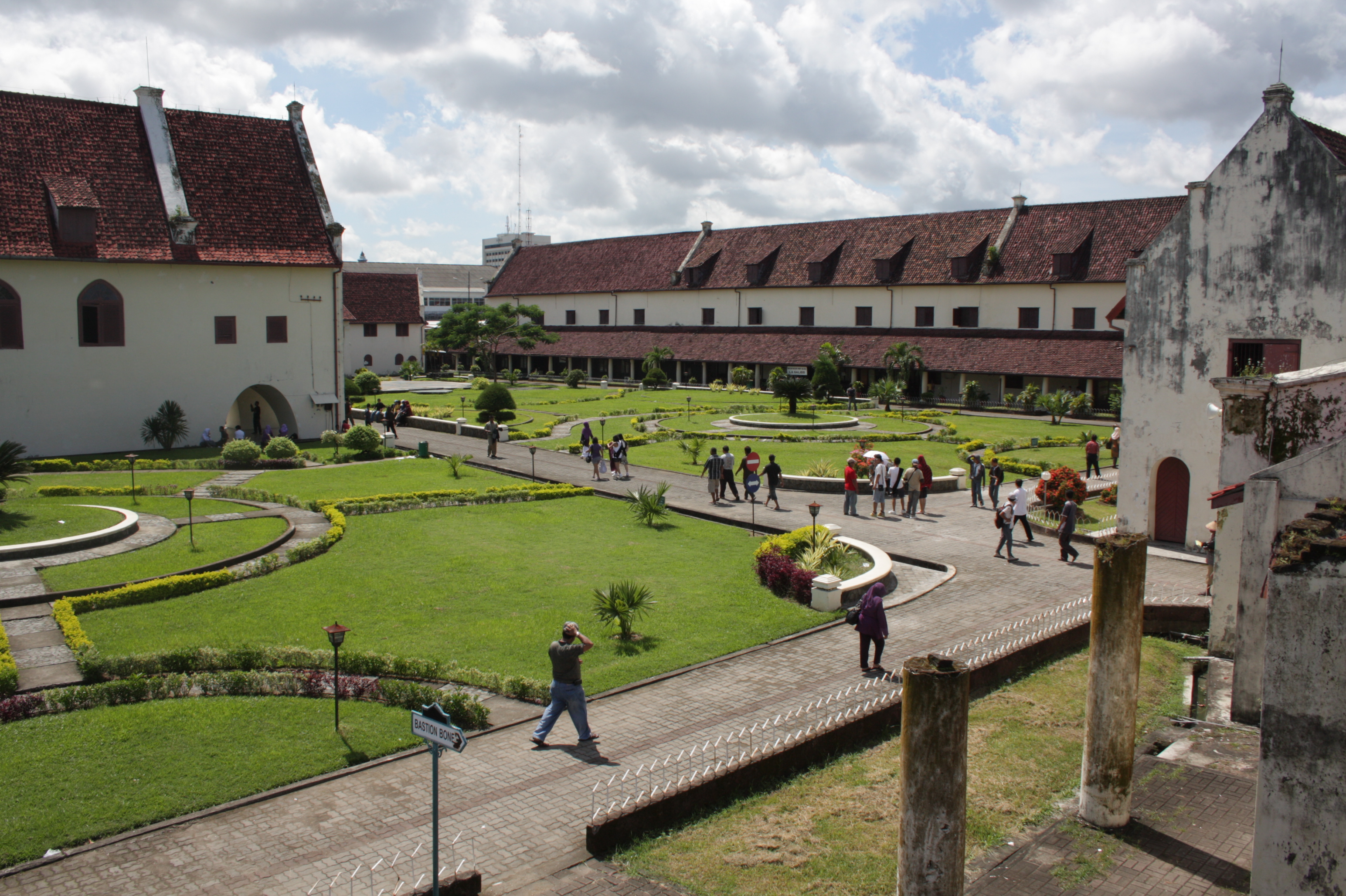 The inside of Fort Rotterdam in Makassar, South Sulawesi, Indonesia.